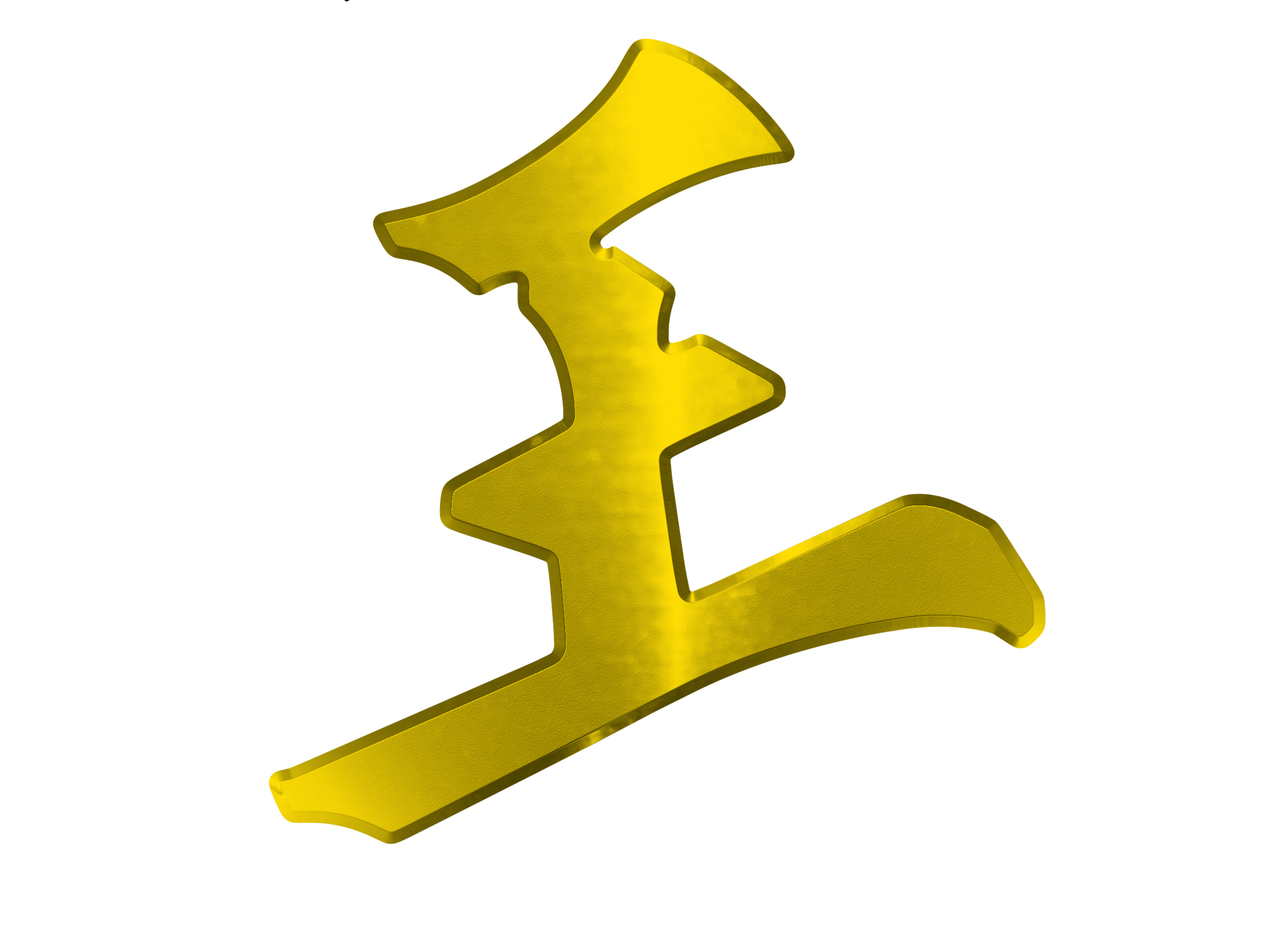 Professionalism with excellence! Firma Wong was established in 1958.